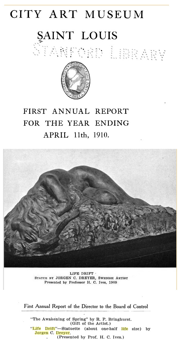 shows accession by St Louis Art Museum of Life Drift in 1909